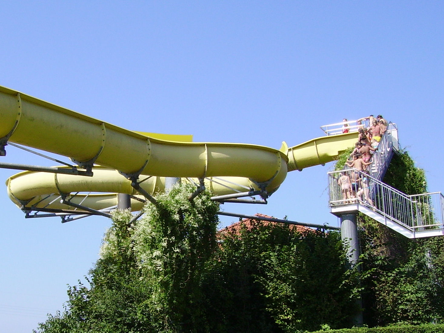 Zapfendorf near Bamberg, Germany